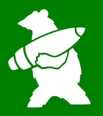 Caporal Wojtek soldier bear